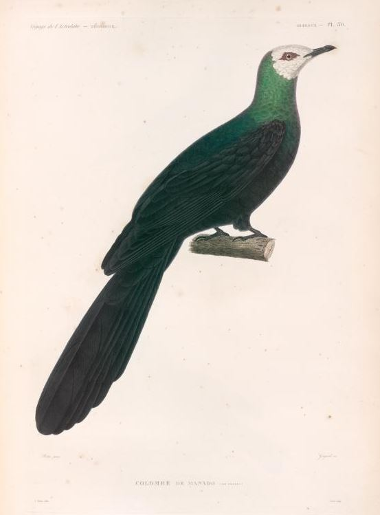 Turacoena manadensis